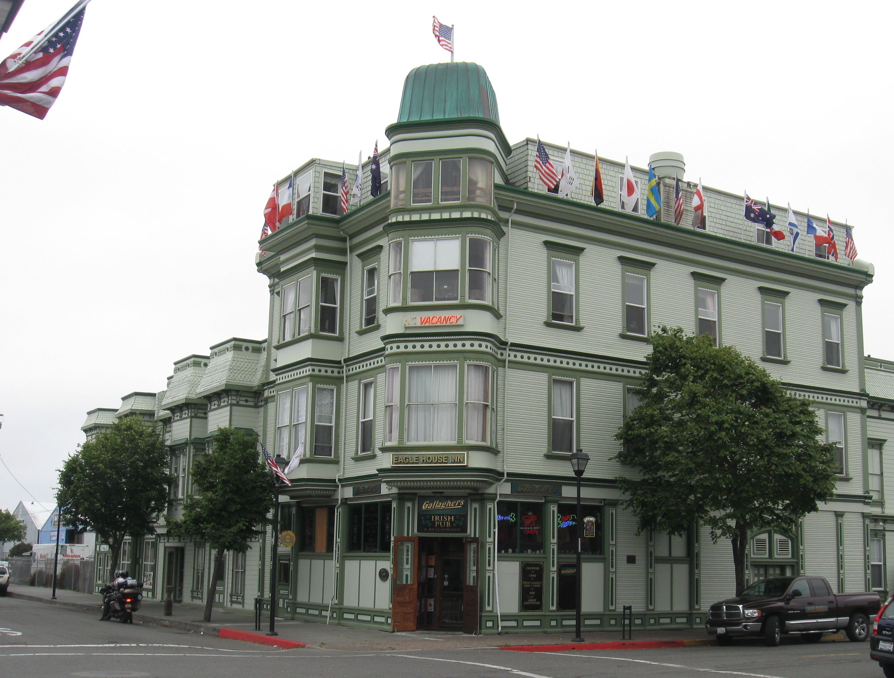 Architecture in Eureka, California. Eagle House Inn at 2nd and C Streets.